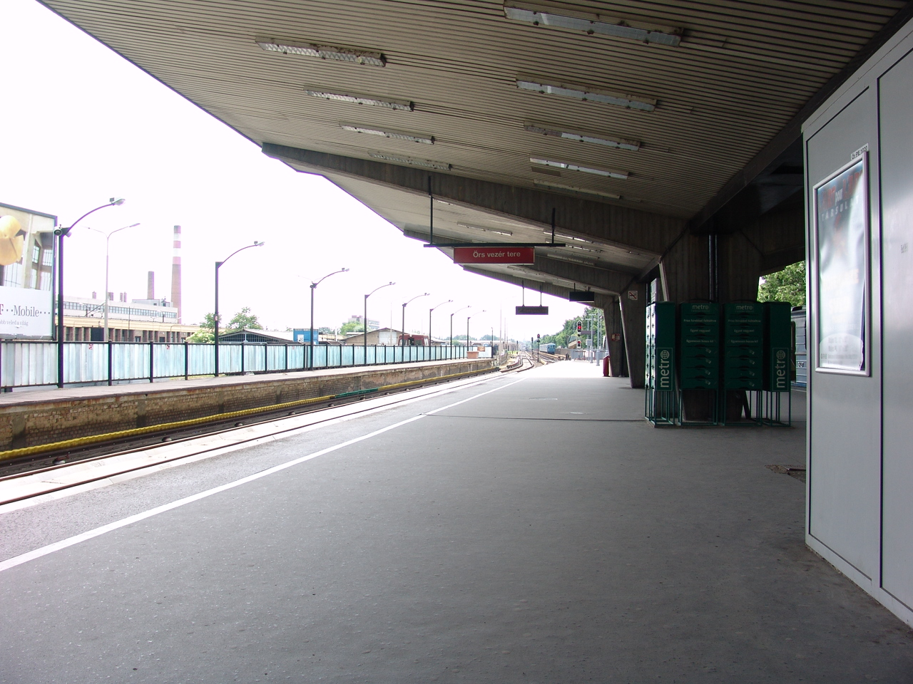 Line 2 (Budapest Metro), Örs vezér tere station at 2006